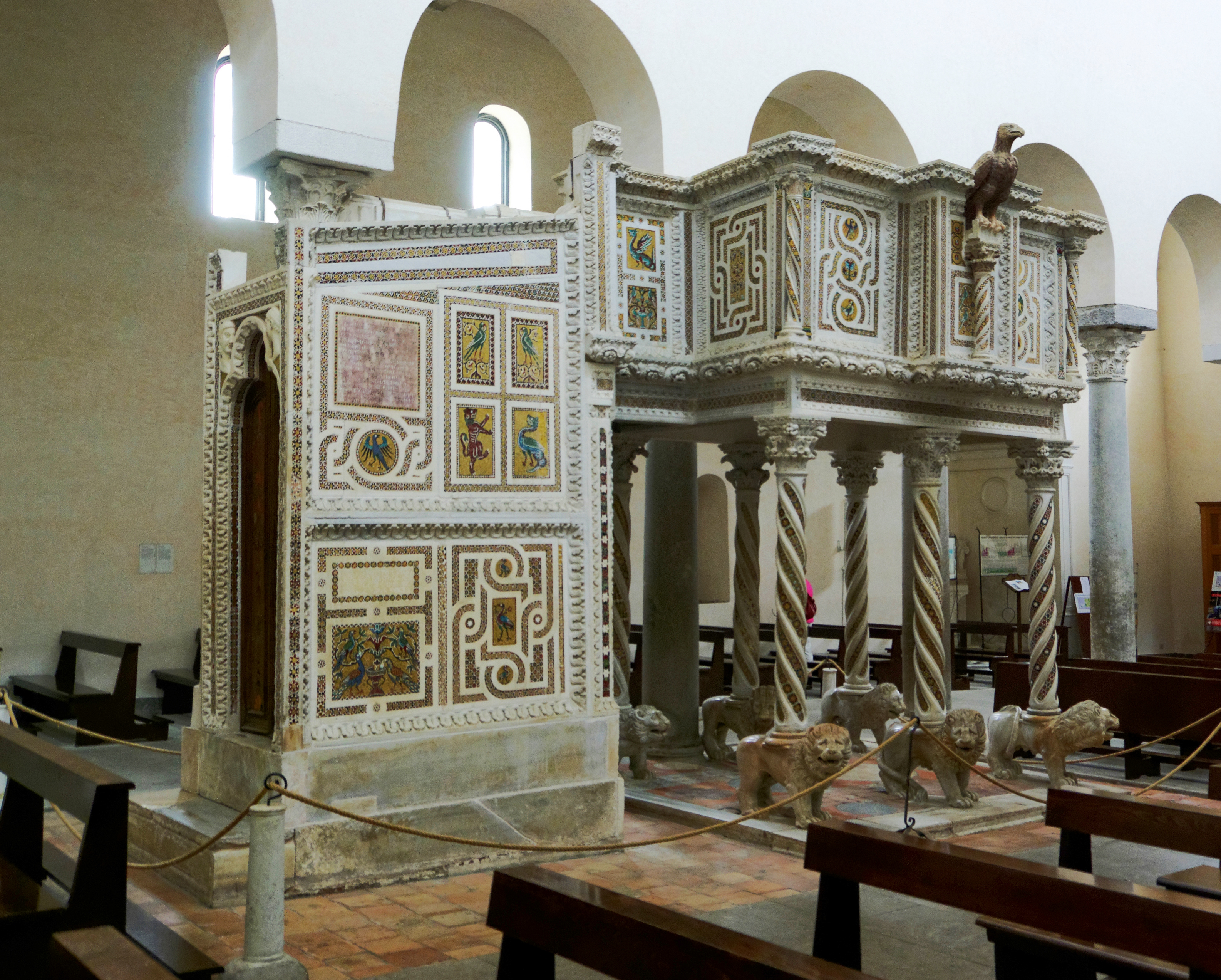 Ravello, cathedral